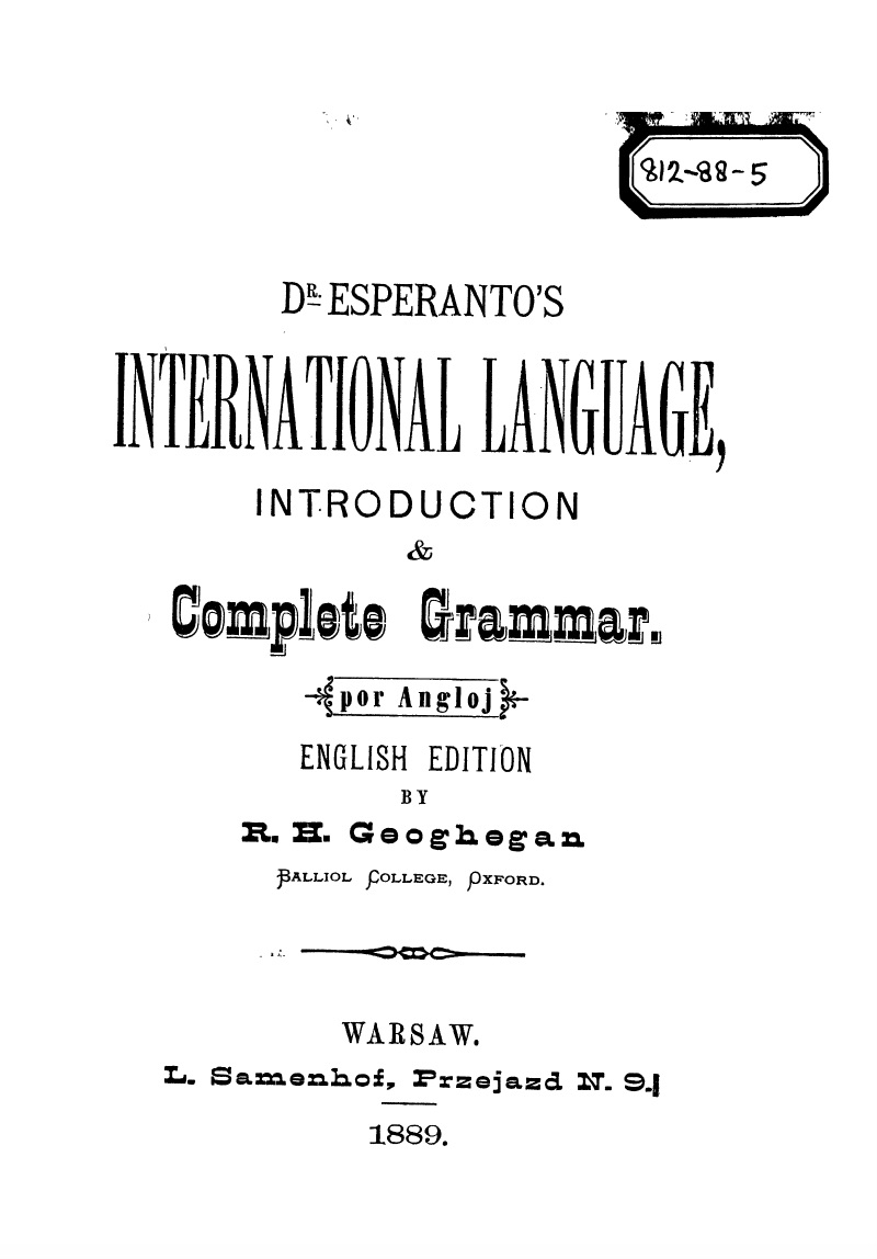 This is the cover page of Dr. Esperanto's International Language, the 1889 translation of Unua Libro by Richard Geoghegan, which is also the standard English translation.